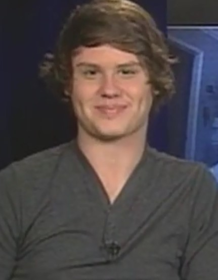 In this 2012 interview, SIDEWALKS ENTERTAINMENT’s Cindy Rhodes interviews the young stars of the 4th feature of the “Paranormal Activity” film series.